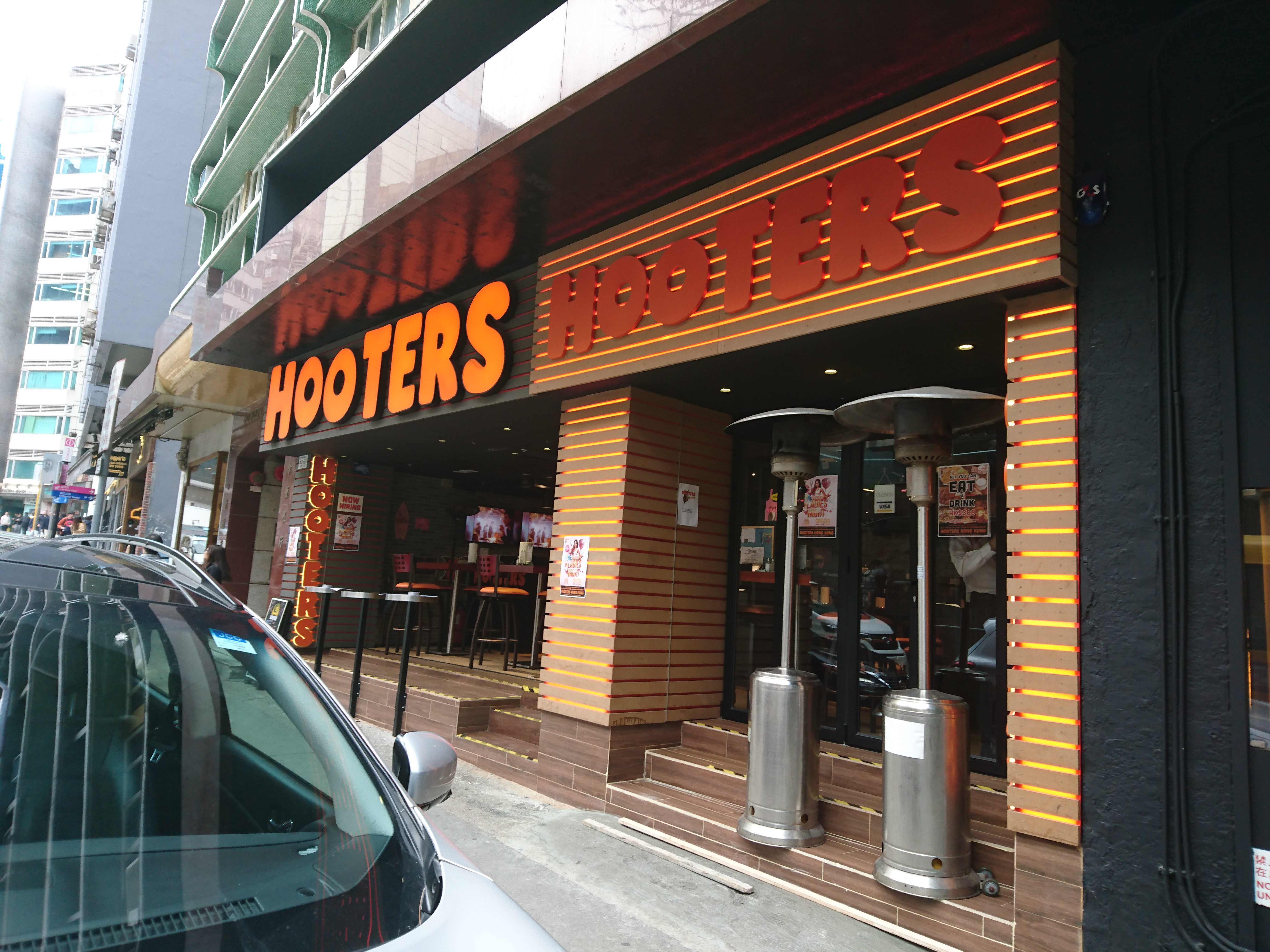 Hooters in Hong Kong